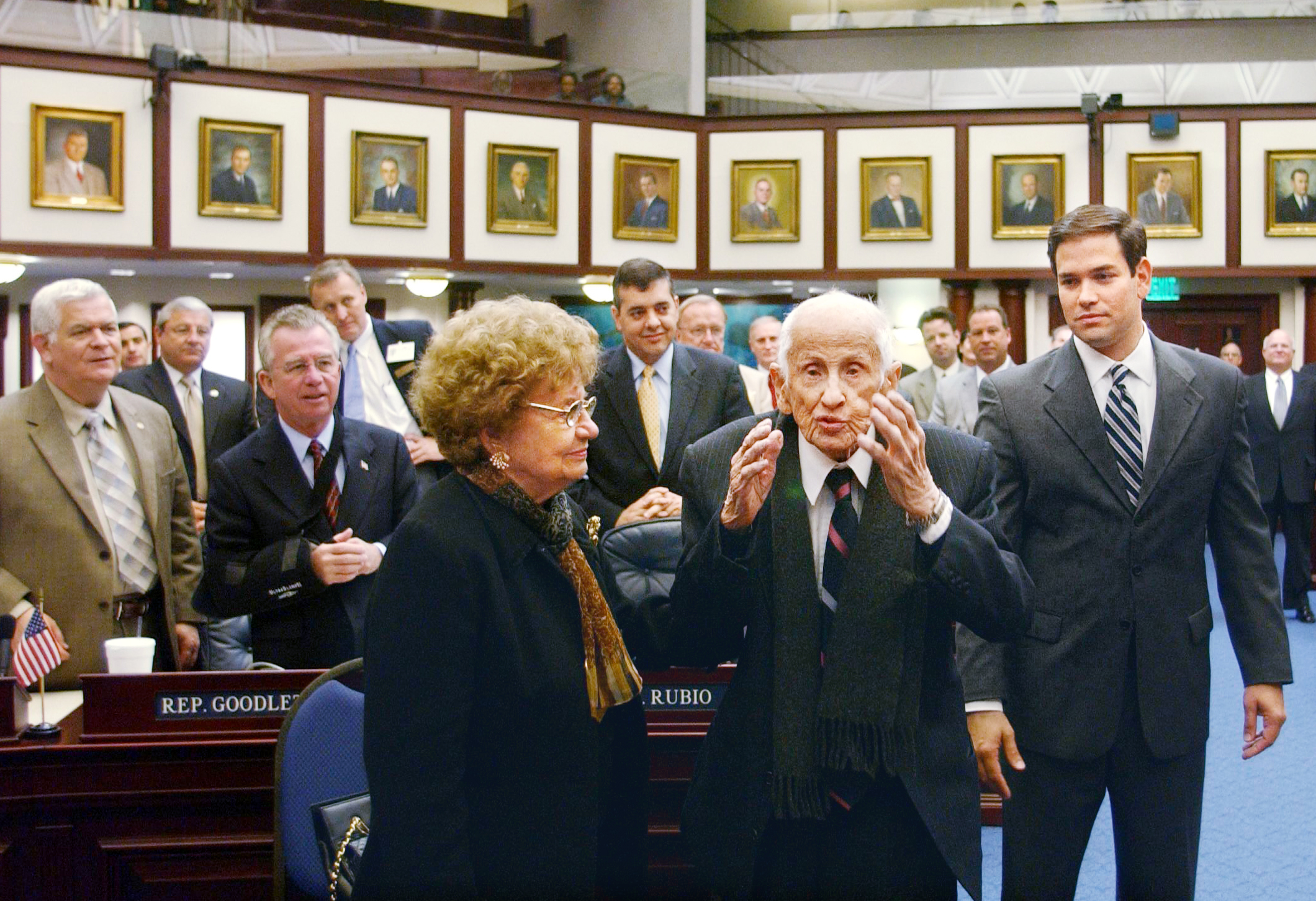 99-year-old Dr. Emilio "Millo" Ochoa, center, the last living person to sign the 1940 constitution of Cuba, speaks to members of the Florida House Wednesday, March 15, 2006, in Tallahassee, Florida. At his side is his wife Marta, while right shows Speaker-designate Marco Rubio, R-Miami.